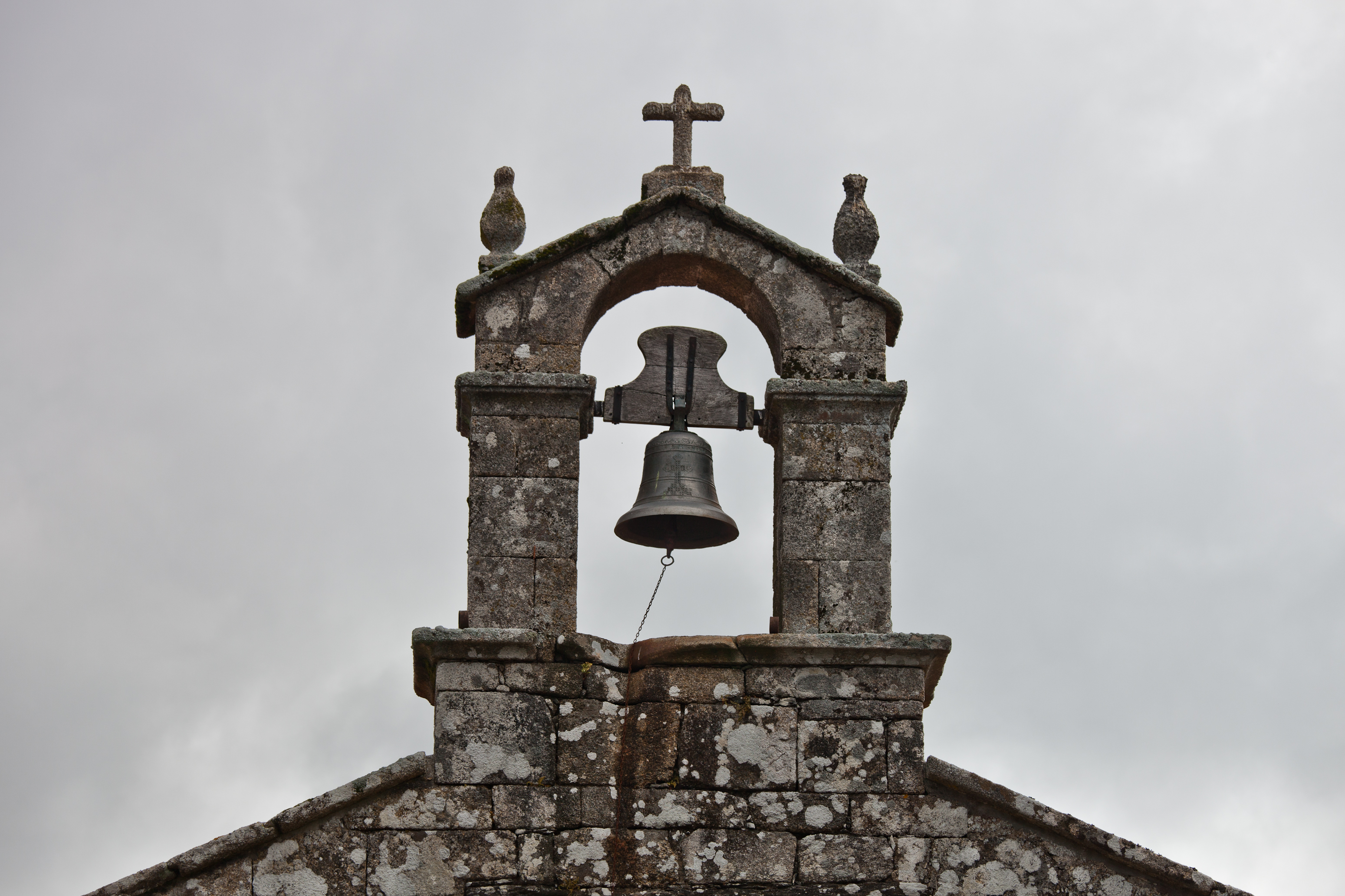 Bell tower of the church of Cumbraos, Mesía, Galiza.